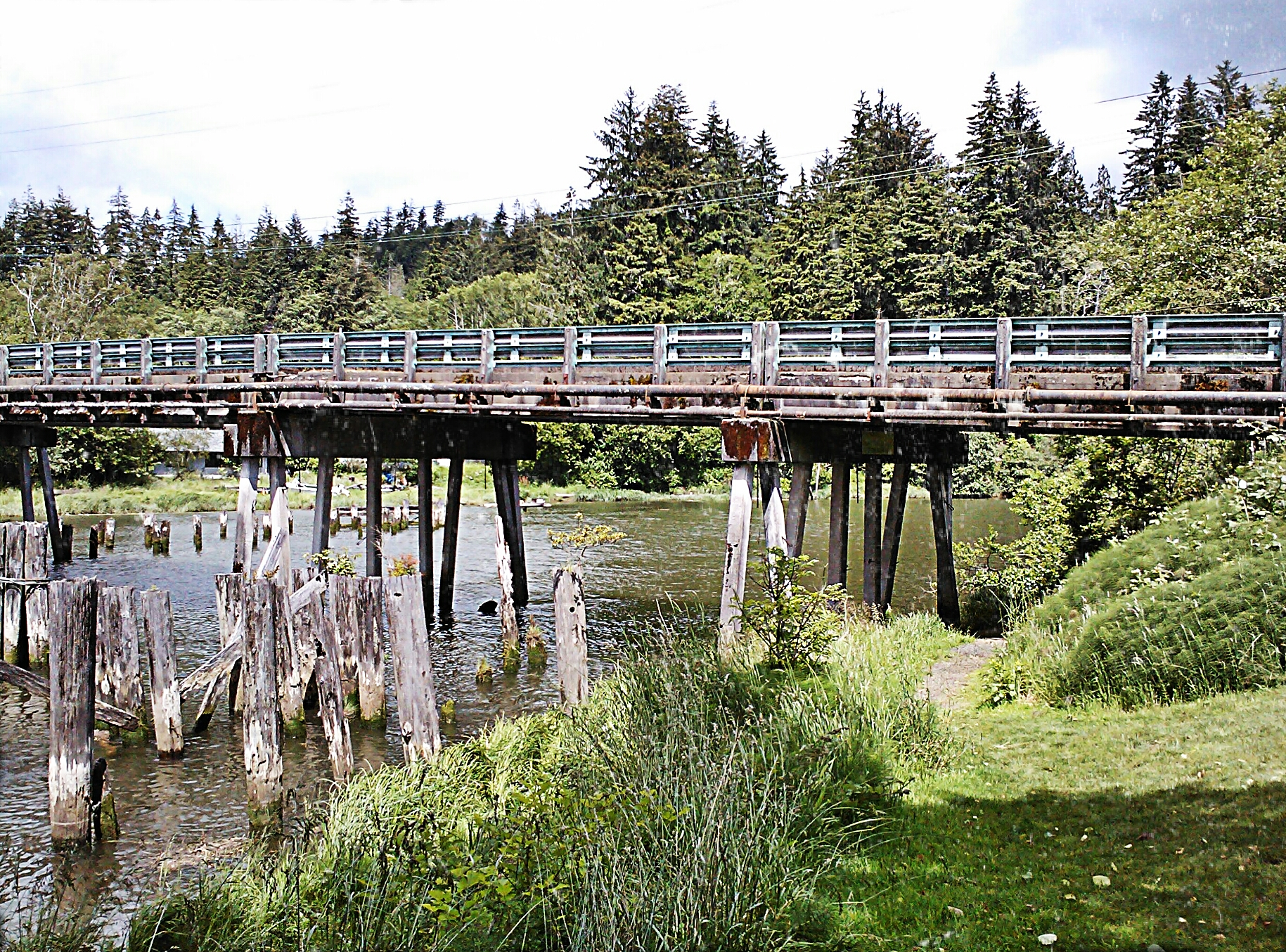 The Young Street Bridge in Aberdeen, Washington, USA. Most notably, the bridge has been the subject of numerous accounts regarding the bridge as a once temporary home for Kurt Cobain.